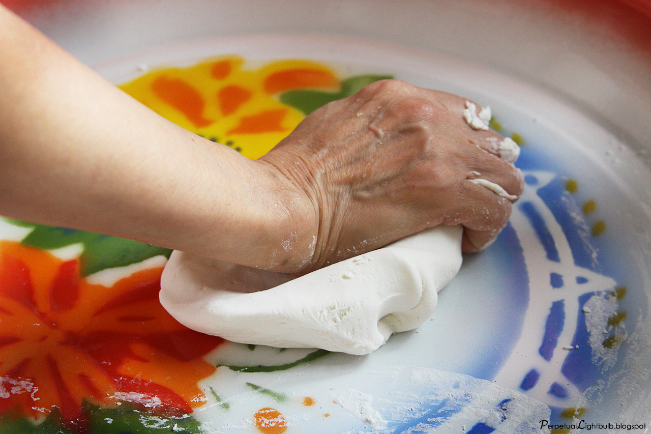 Kneading of a dough